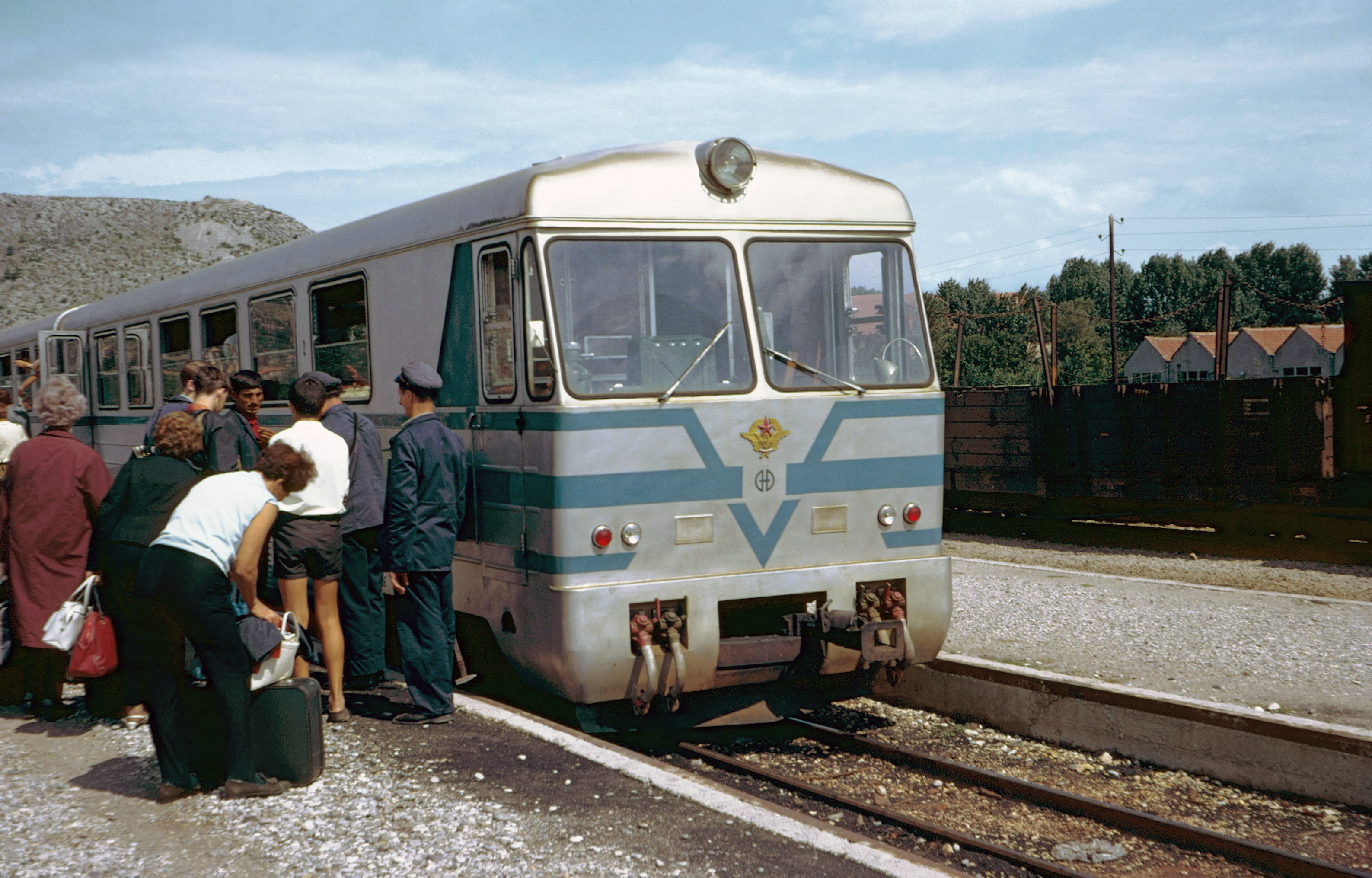 JZ narrow-gauge railcar at Capljina in 1968